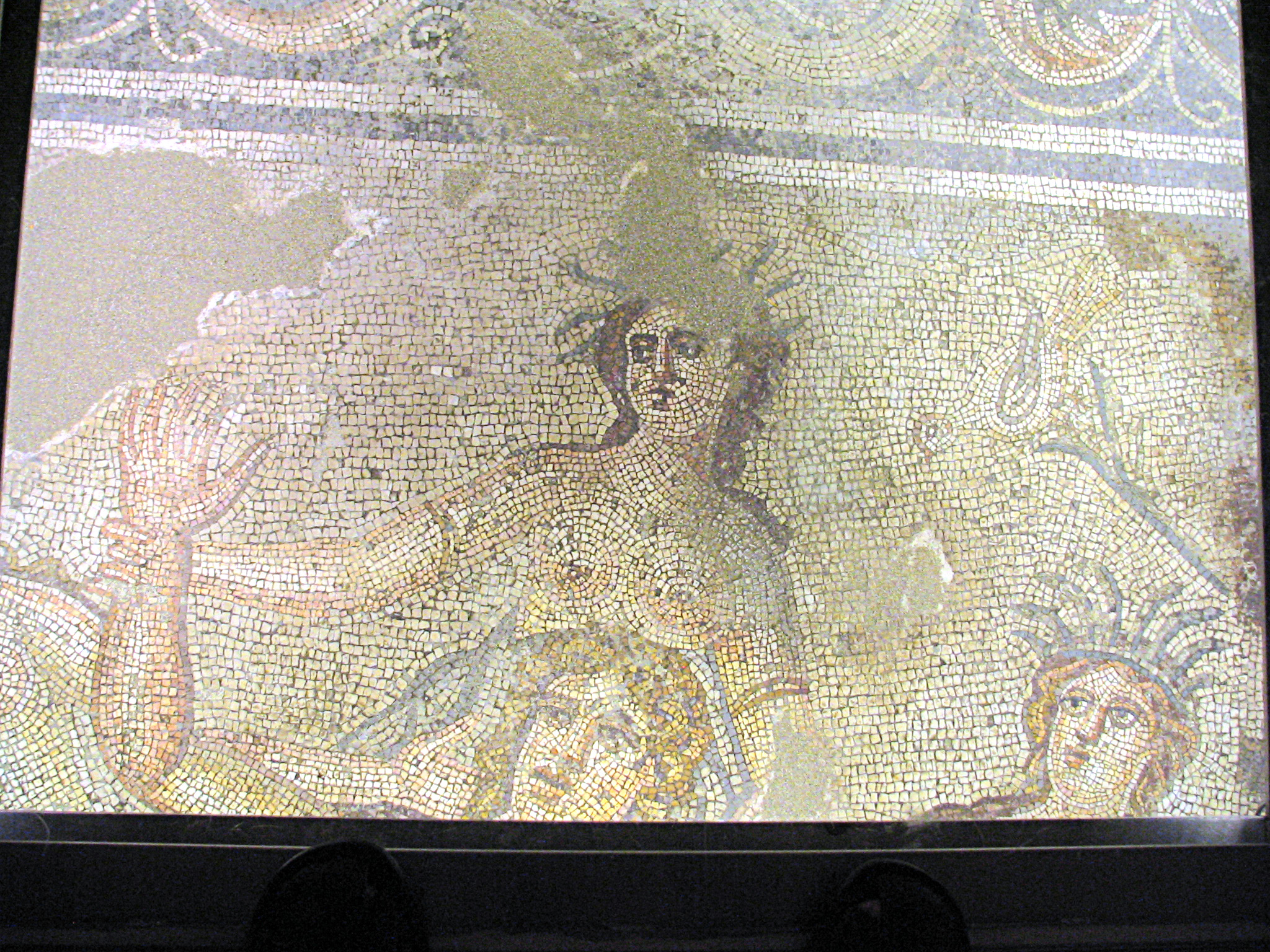 Hylas kidnapping mosaic, Archeological museum of Alanya, Turkey.